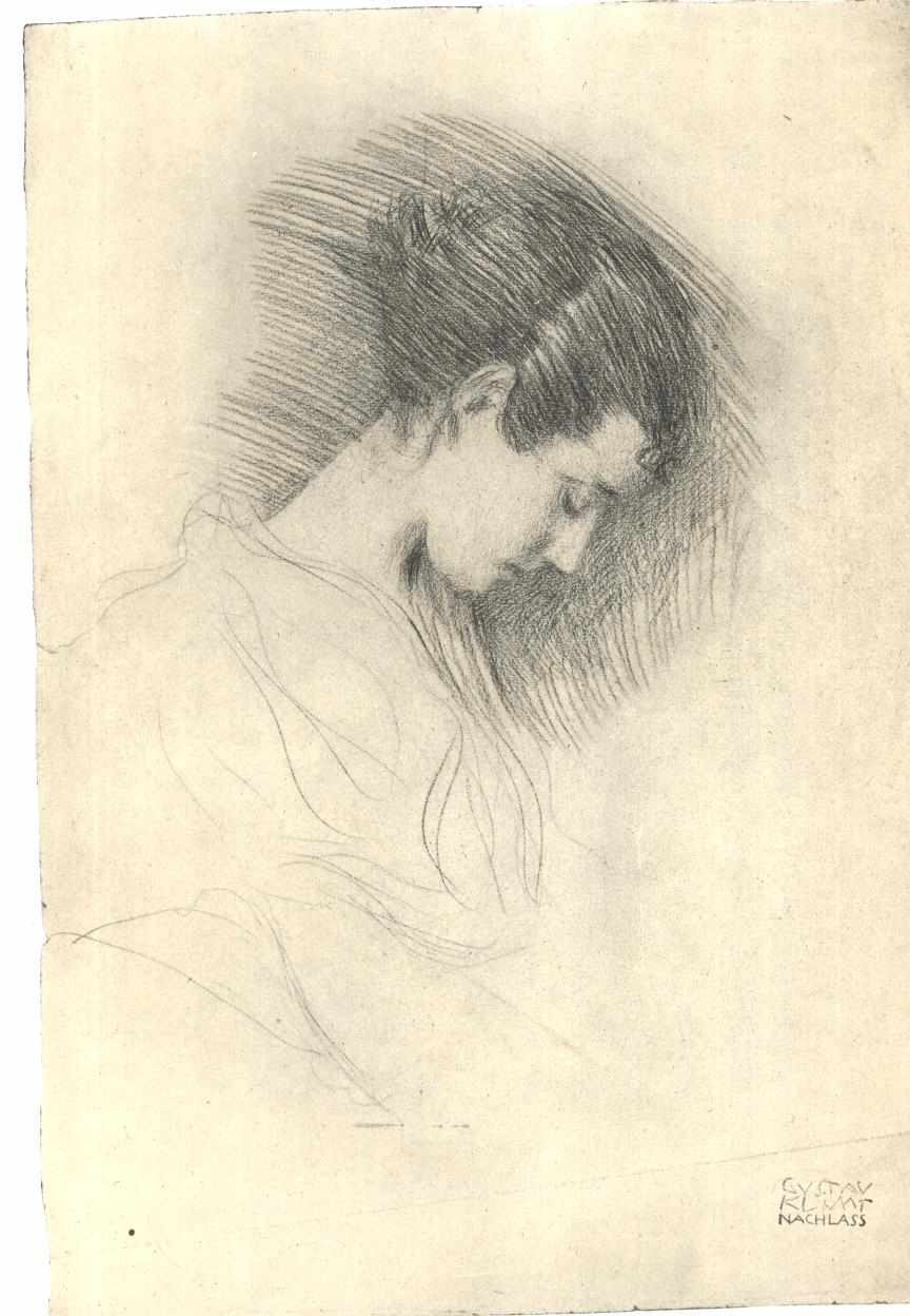 Portrait of a girl with bended head heading left